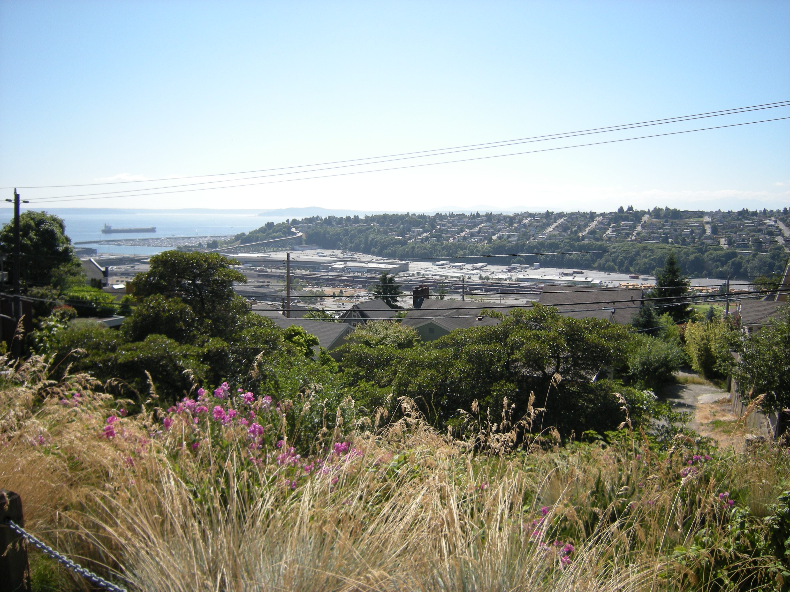 This picture of the southern part of the Interbay district taken from Soundview Terrace on Queen Anne Hill, Seattle, Washington shows the former extent of the tideflats of Smith Cove. In the background is the Magnolia neighborhood. The Magnolia Bridge can be seen left of center.